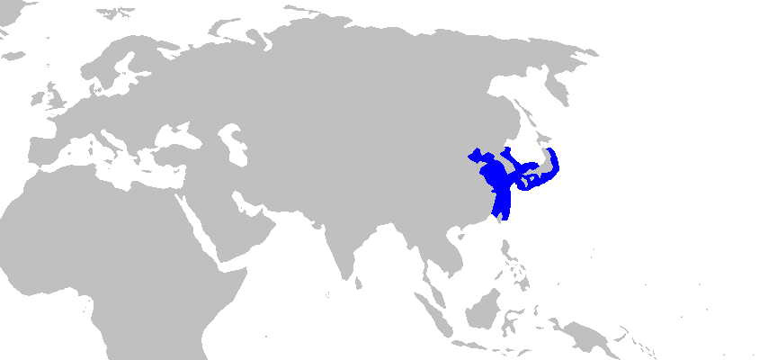 Distribution map for Squatina japonica, based on [1]